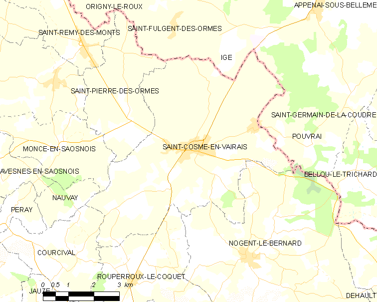 Map of French municipality